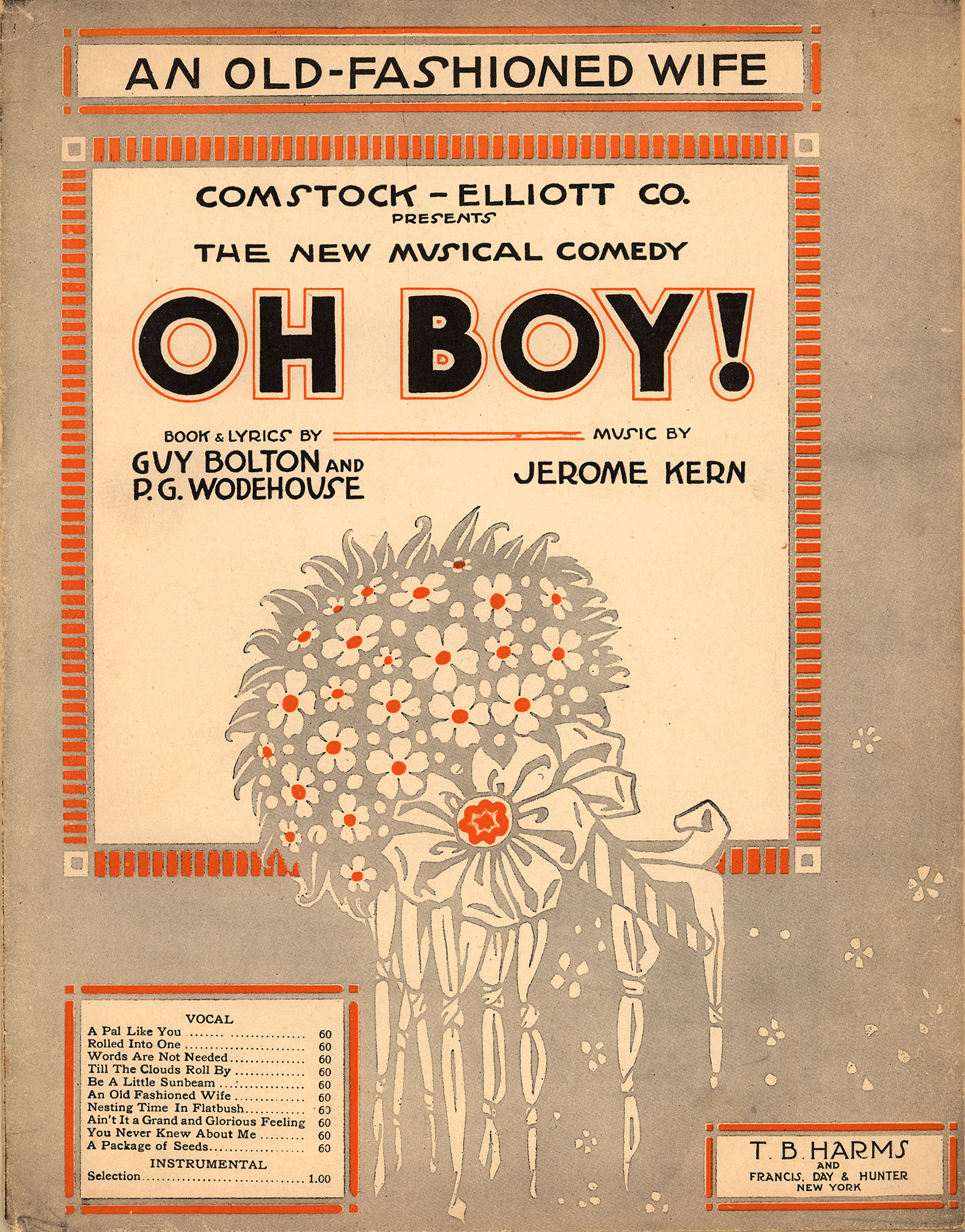 Sheet music cover of "An Old-Fashioned Wife", from the 1917 Broadway musical Oh, Boy!.